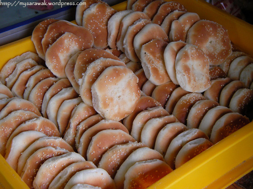 Kom Biang a Foochow delicacy in Sibu